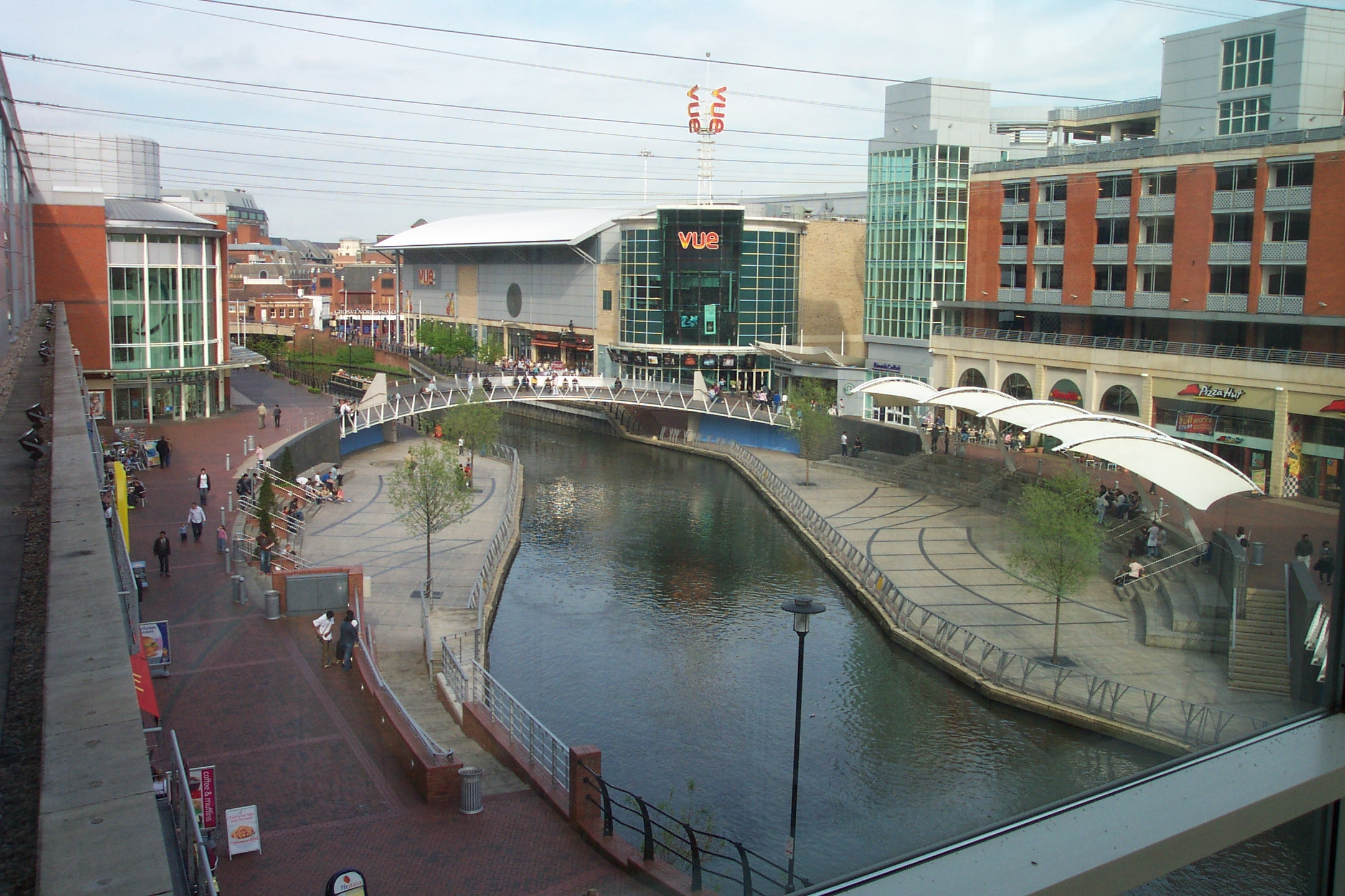 The Riverside level of The Oracle shopping centre in Reading, England. For more information, see Wikipedia article The Oracle, Reading.